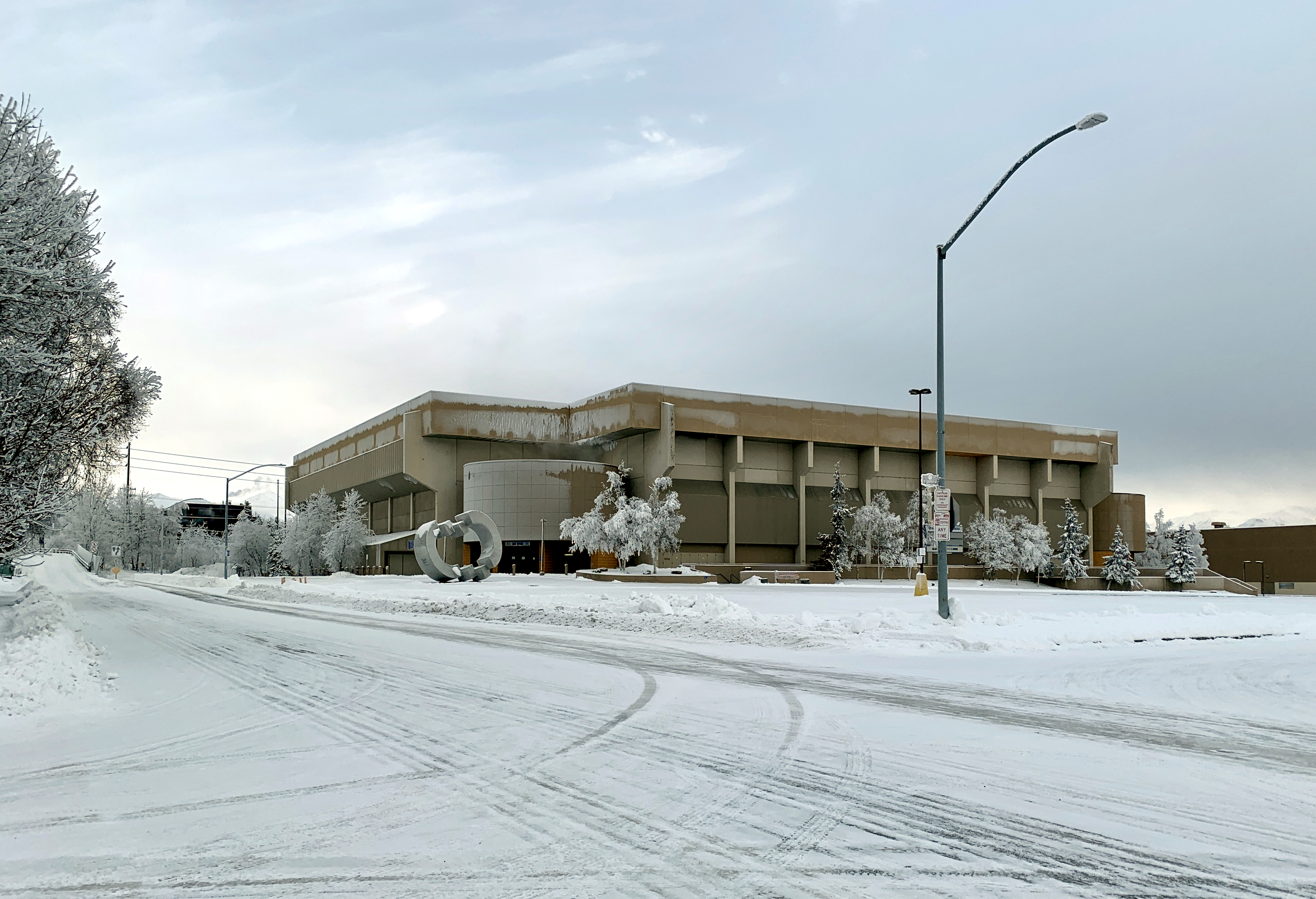 Exterior as seen from the corner of Eagle Street and 16th Avenue.